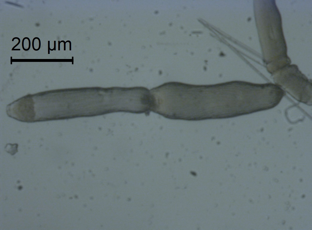 2 trophozoites, Gregarina Garnhami, pairing up to form a gamont